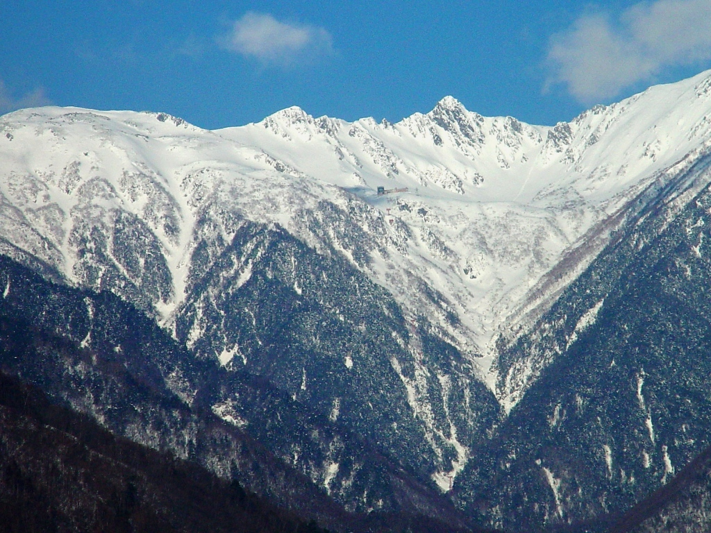 Mount Hoken and Senjojiki Cirque seen from Komagane, Nagano, Japan